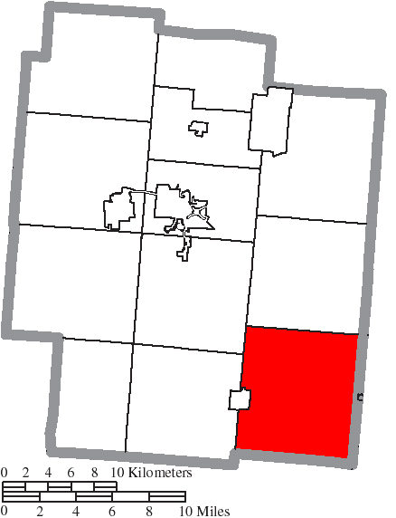 Map of the municipal and township boundaries of Jackson County, Ohio, United States, as of the 2000 census, with the location of Madison Township highlighted. Township borders are shown only in unincorporated areas in order to differentiate incorporated and unincorporated areas more clearly.